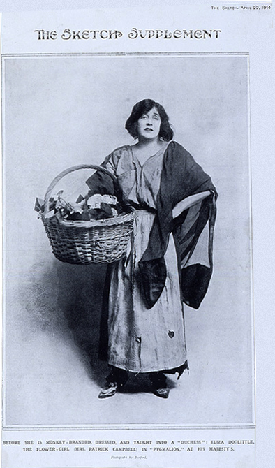 Magazine illustration of Mrs. Patrick Campbell in George Bernard Shaw's play "Pygmalion" at His Majesty's Theatre, London. Shaw wrote the part of Eliza expressly for Mrs. Campbell who played opposite the theatre's actor manager Herbert Beerbohm Tree in the role of Henry Higgins. Sketch Magazine, London, England, 22 April 1914.